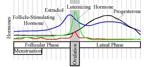 Hormone levels during the menstrual cycle: Estradiol, progesterone Modified from Image:MenstrualCycle.PNG